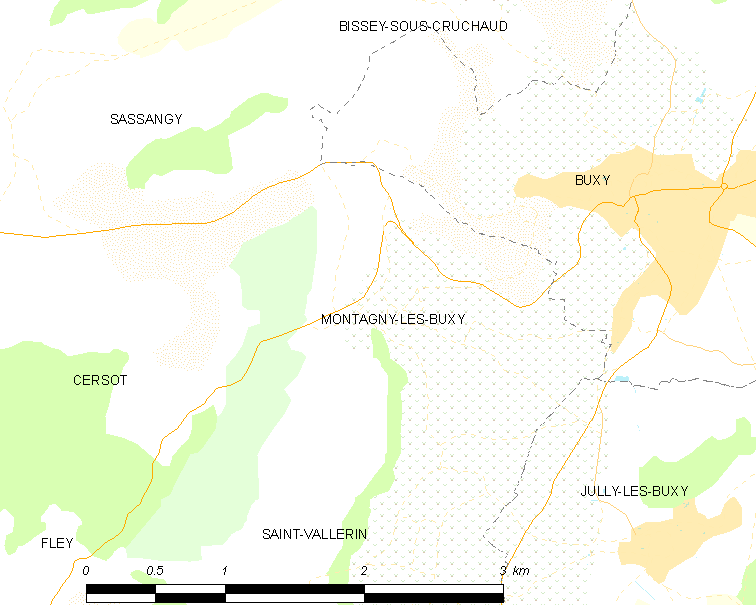 Map of French municipality